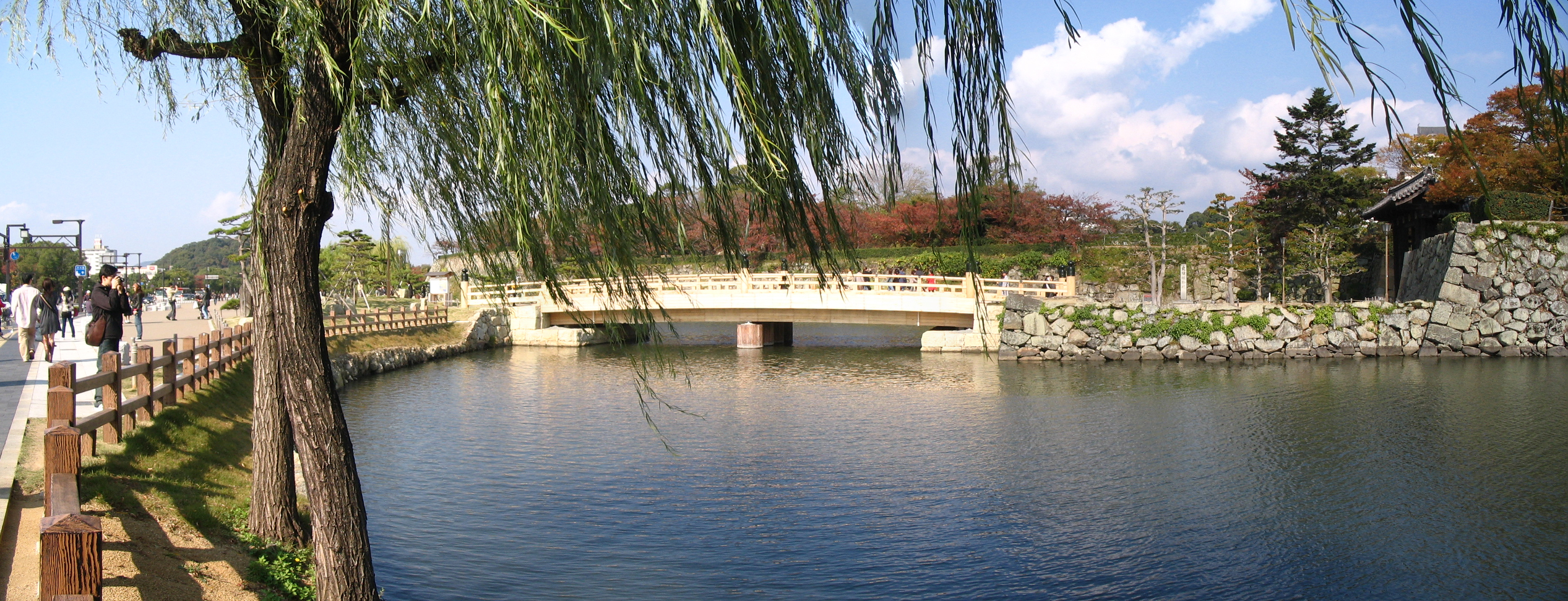 Panoramic photo of Sakuramon Bridge, Himeji Castle, combined from 1987348491, 1987354009 and 1987359053